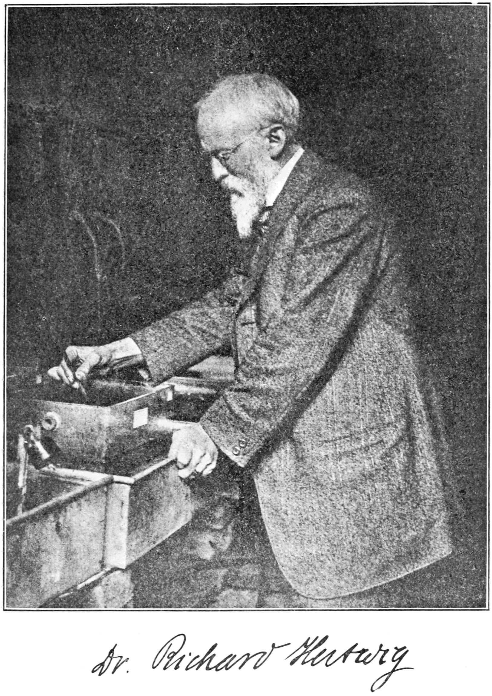 Richard Hertwig